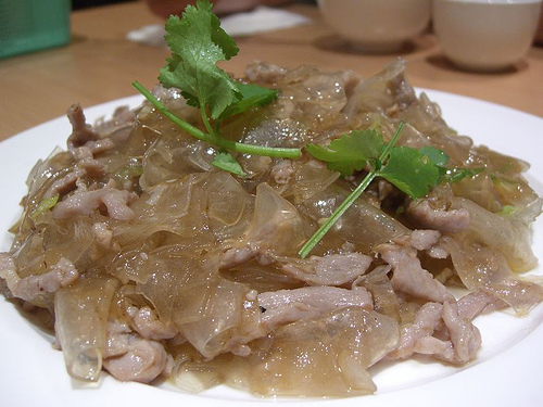 肉丝炒粉皮 Sweet potato noodle (mung bean sheets) stir-fried with pork - David and Camy Noodle Restaurant, Box HillNoodle sheet noodle skin